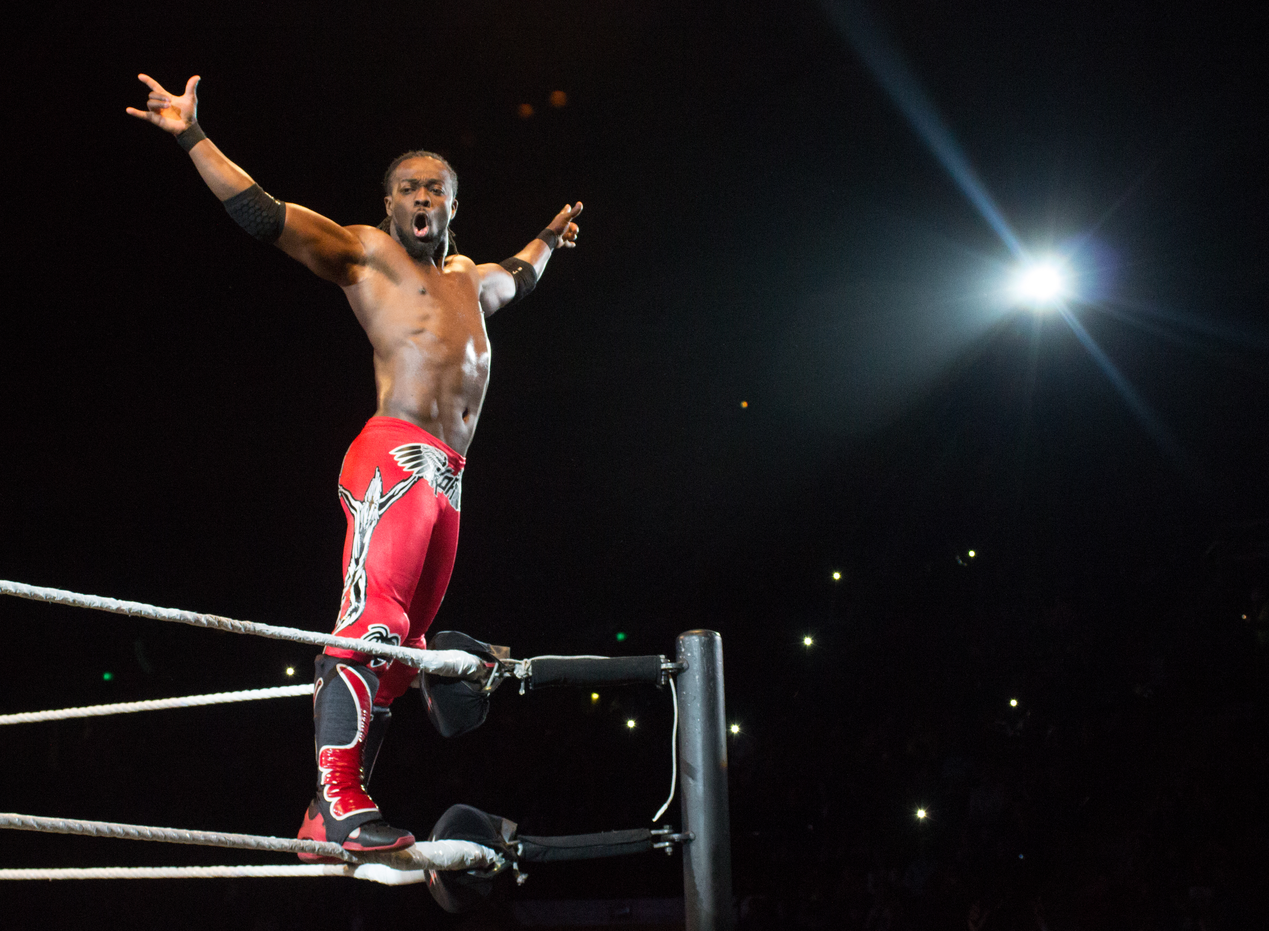 WWE House Show - Garrett Coliseum - 1/10/15